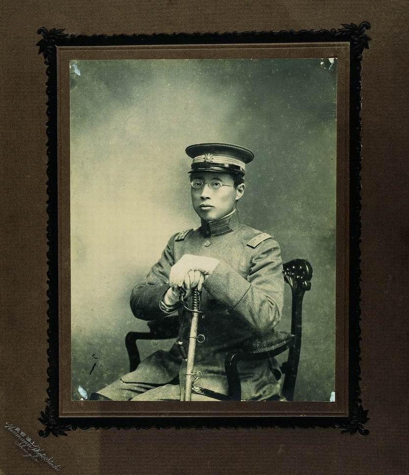 Chen Qimei